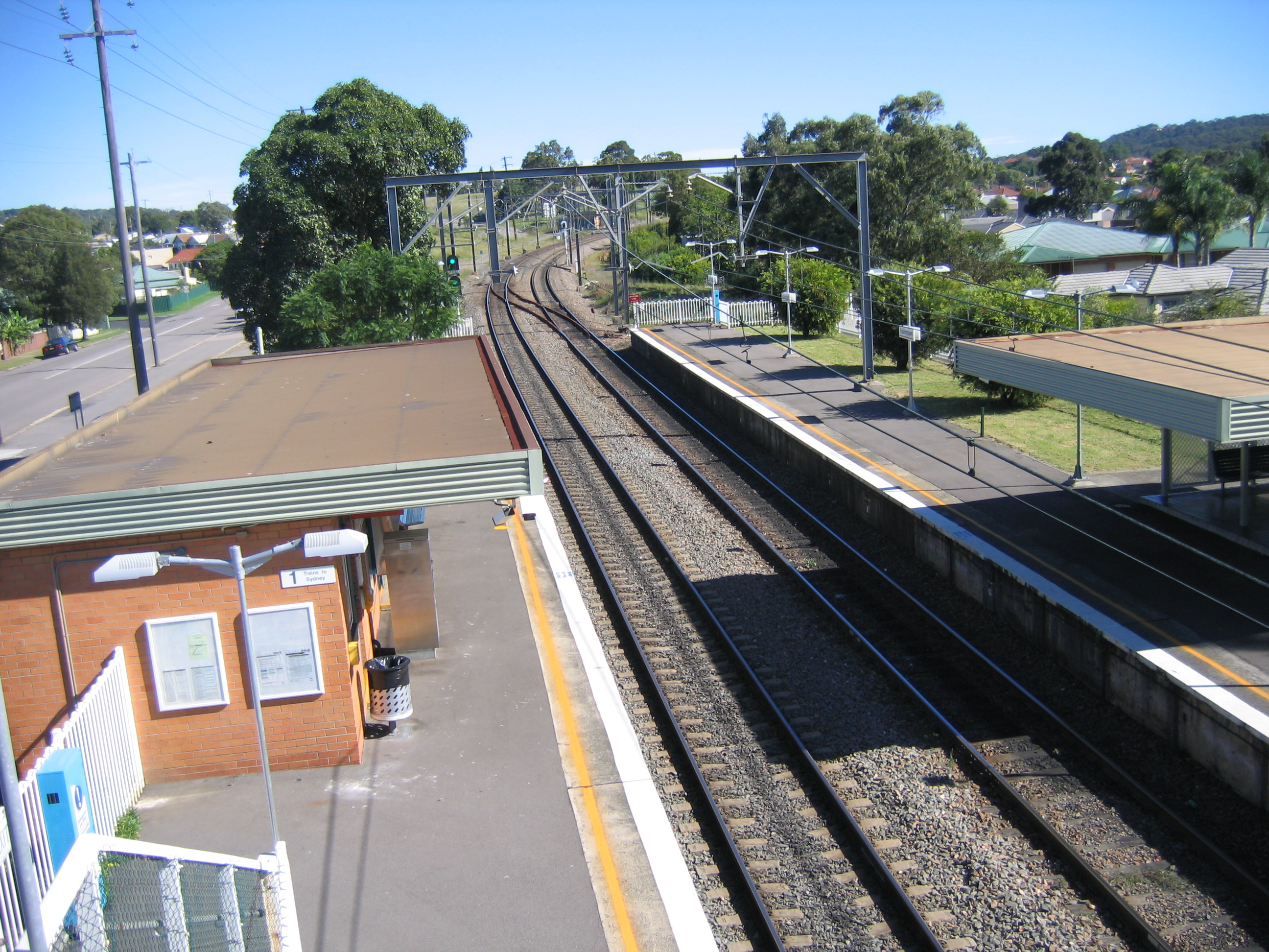 Adamstown Railway station viewed from bridge